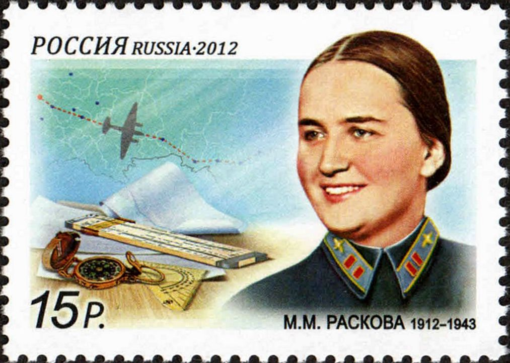 100th birth anniversary of the Soviet female pilot, navigator, Hero of Soviet Union Marina Raskova. The portrait of Marina Raskova (in the uniform with the insignia of a Major of Soviet Air Force); the route of the record flight Moscow – Far East, performed in 1938 by the crew included Valentina Grizodubova, Marina Raskova and Polina Osipenko; the tackle of a navigator: a compass, a protractor and a slide rule. The stamp of Russia, 15 Rubles, 21 March 2012, PTC Marka Catalogue No 1567, Michel No 1799. Coated paper. Offset printing. Perforation: comb 12½:12. Size of the stamp: 42×30 mm. Print run: 450,000.